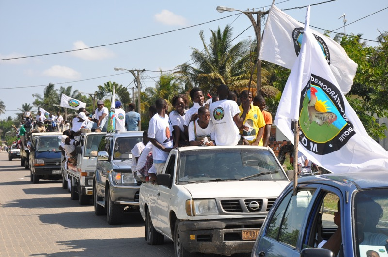 MDM partisans in Dondo during the election campaign for the local elections in 2013, Mozambique